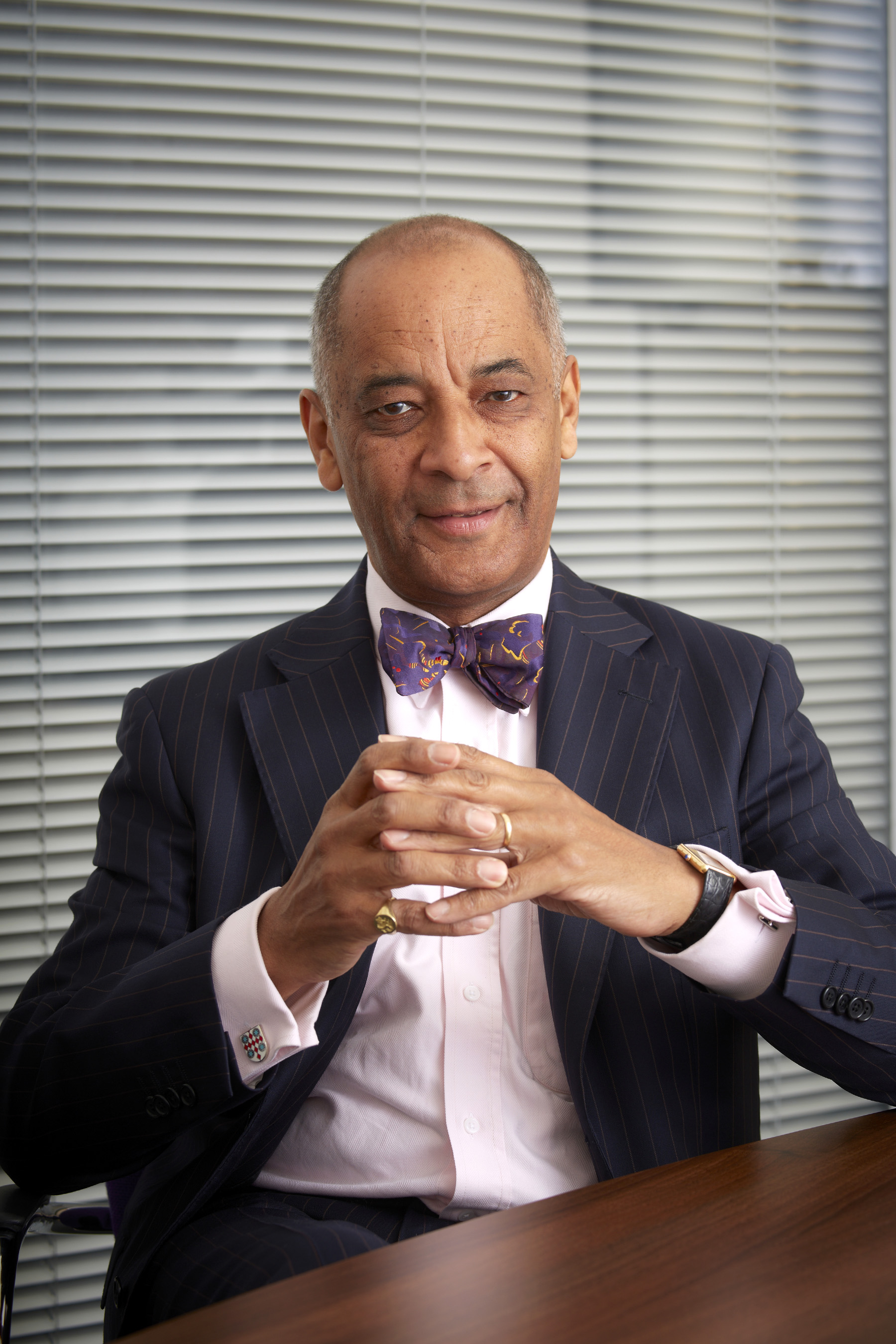 Ken Olisa Portrait